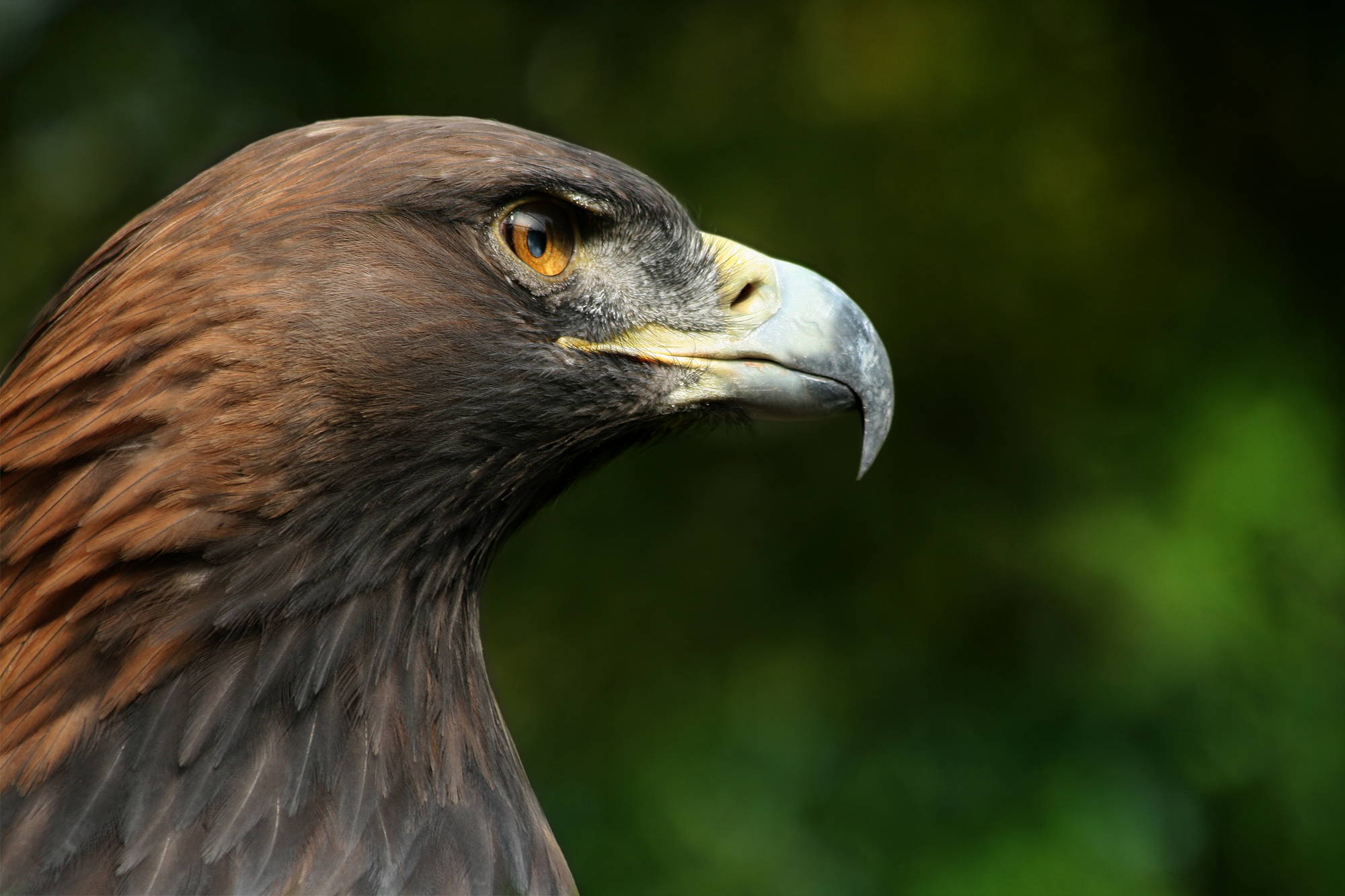 The Golden Eagle Aquila chrysaetos is one of the best known birds of prey in the Northern Hemisphere. Like all eagles, it belongs to the family Accipitridae.